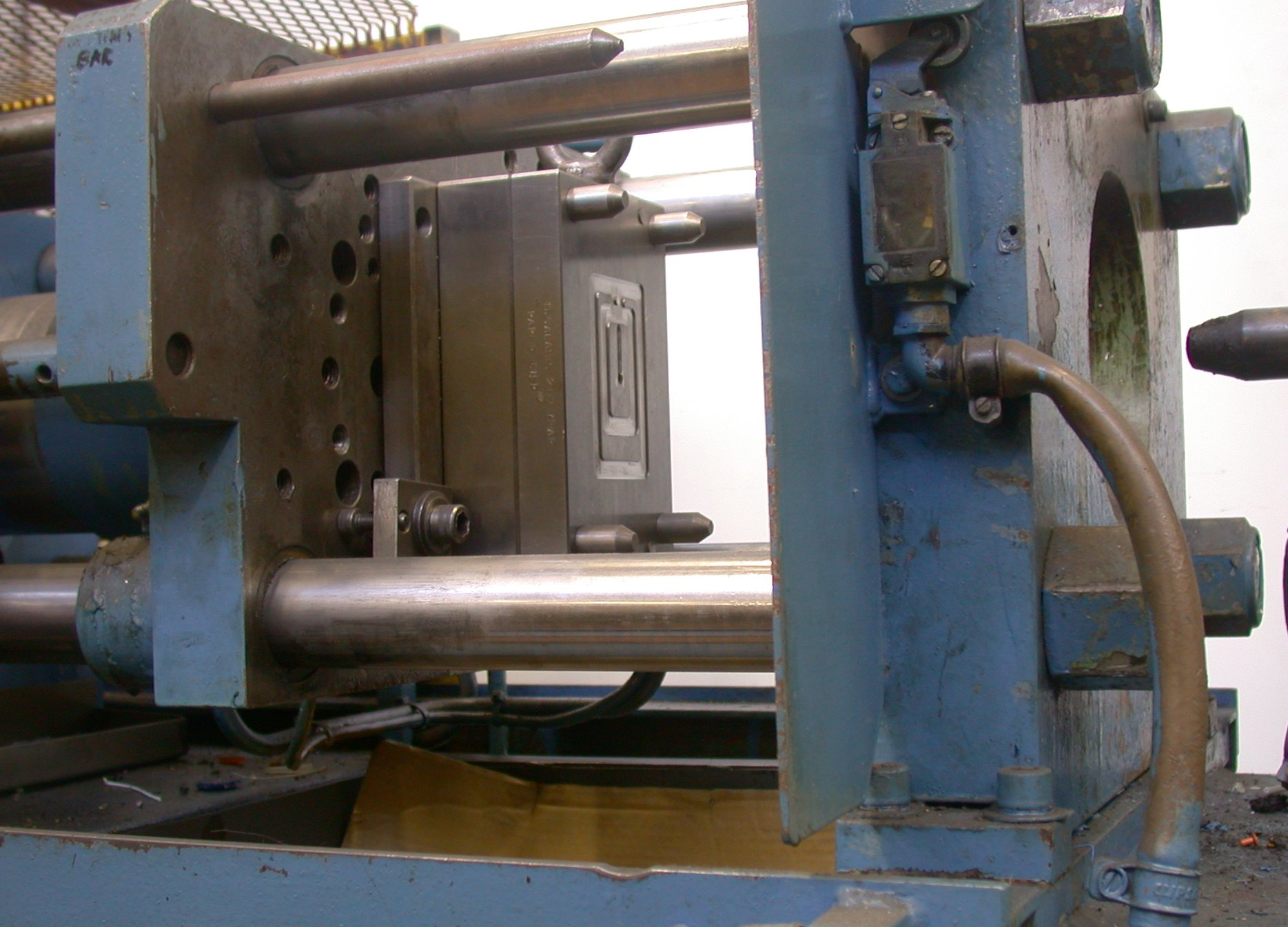 Photo shows one half of a die producing a decorative paperclip (approx 50mm x 100mm), mounted to the movable platen in the workarea of an injection moulder. The injector nozzle is shown retracted at the right side of the photo. The limit switch to control the closing position of the hydraulics (that opens and closes the die ) is visible in the foreground, mounted on the fixed platen.